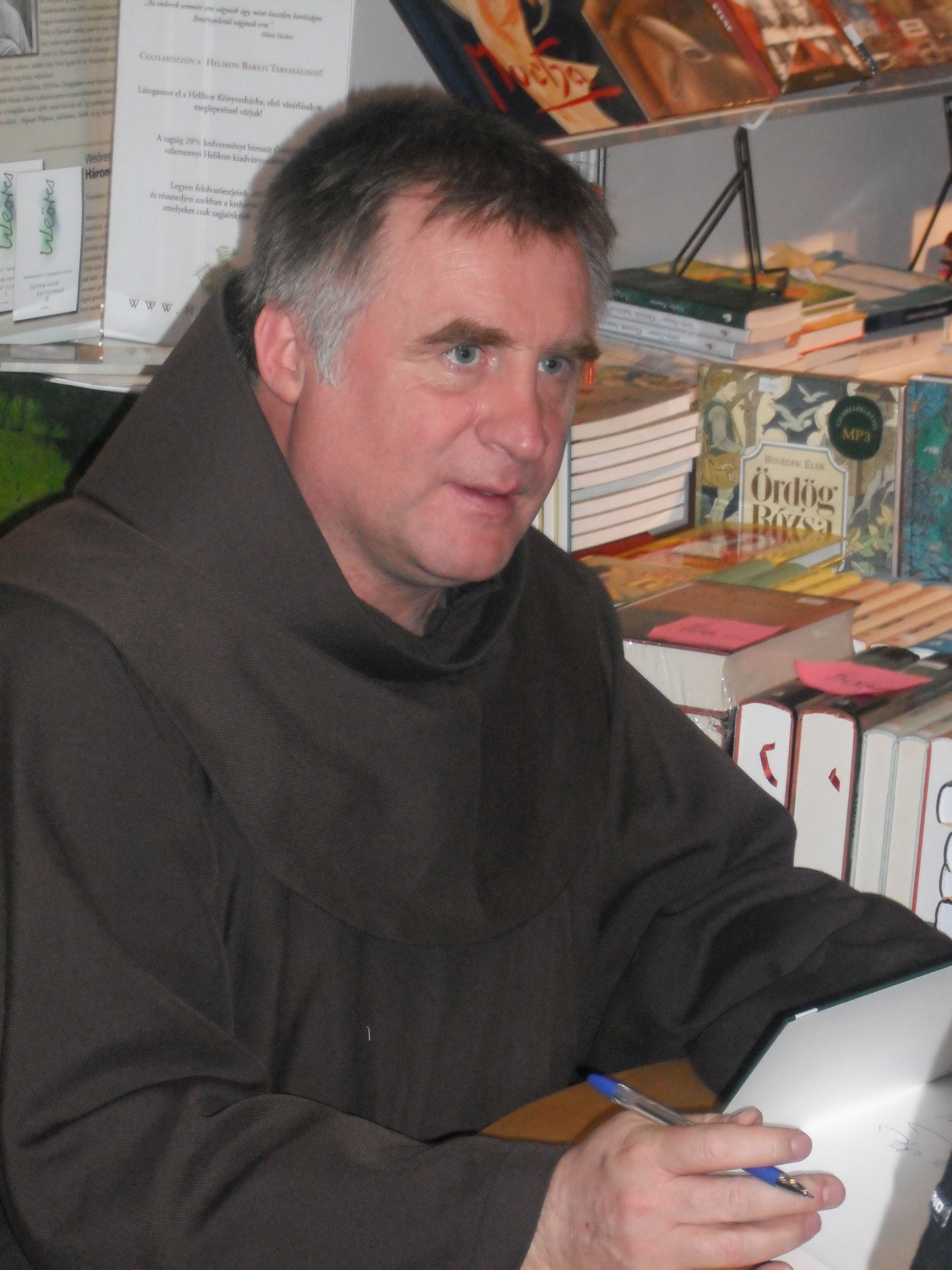 Csaba Böjte, Franciscan friar, humanitarian at the 2010 Budapest Book Festival